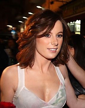 Italian actress Sarah Maestri.